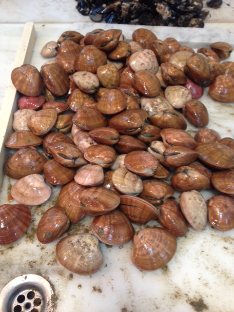 Callista chione, Smooth clam in Ceuta market place